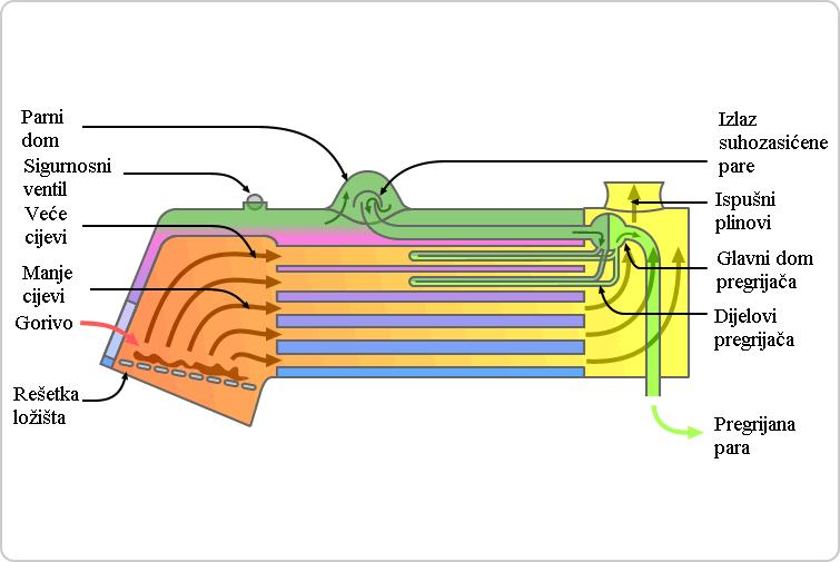 Steam Locomotive boiler